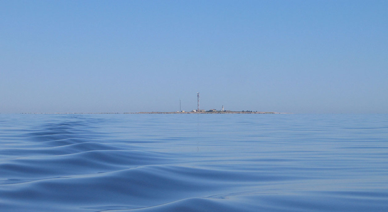 Vaindloo island